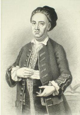 Stipple engraving by Edward Scriven (1775-1841), portrait of the printer and publisher Edward Cave (1691–1754) after Francis Kyte